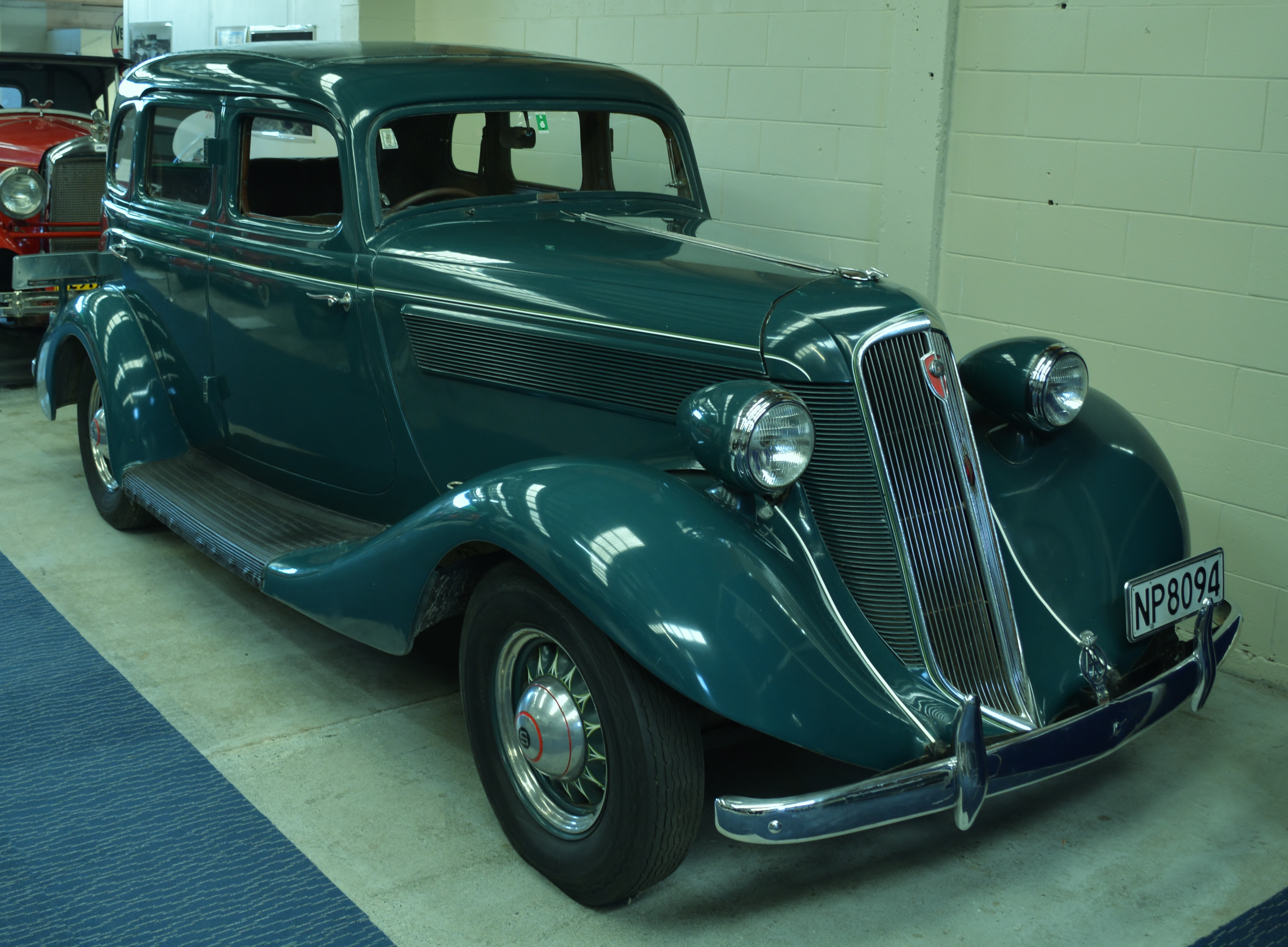 Whangarei,Northland.New Zealand